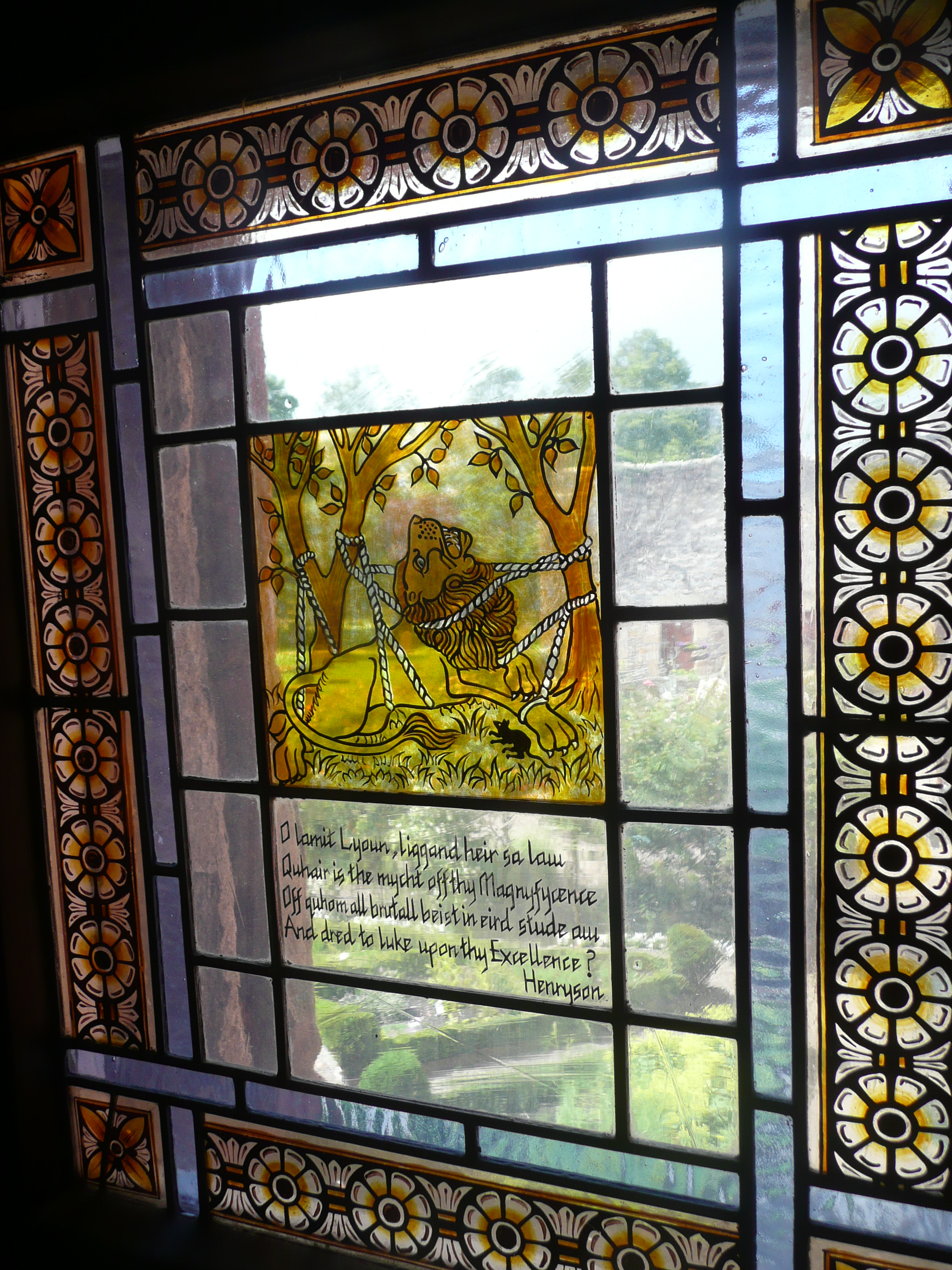 Abbot House Window, Dunfermline, depicting Robert Henryson Poem Text on the window: O lamit lyoun, liggand heir sa law Quhair is the mycht off thy Magnyfycence Off quhom all brutall beist in eird stude aw And dred to luke upon thy Excellence? Henryson